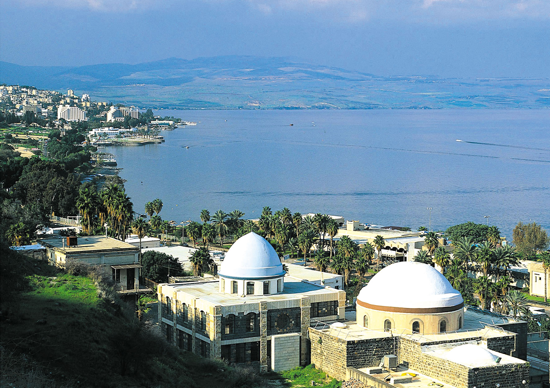 Grave of Rabi Meir, Tiberias